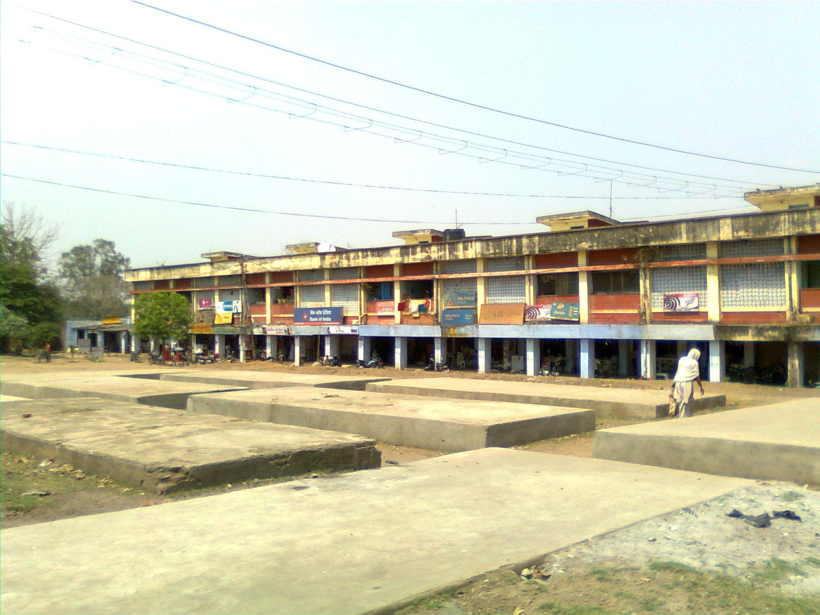 This is the old market of Dugda.